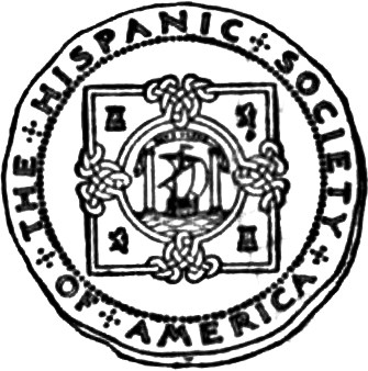 pg 7 of Eleven Poems.